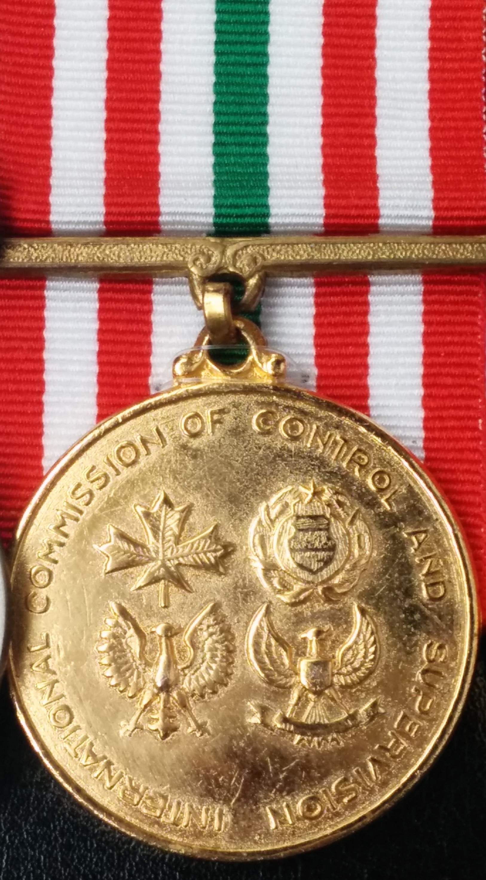 Military honour (medal) International Commission of Control and Supervision Vietnam (ICCS). Awarded for 90 days cumulative service between 28 January 1973 to 30 April 1975. The 1,160 personnel of the commission were from Canada, Hungary, Indonesia and Poland and their role was to monitor the cease-fire in South Vietnam as per the Paris Peace Conference. The Commission arranged the release and exchange of more than 32,000 prisoners of war.